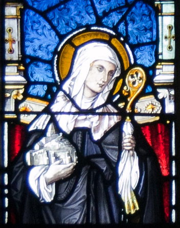 Detail of the left part of the right window of the apse behind the altar, depicting Athracht, St. Attracta in Latin.